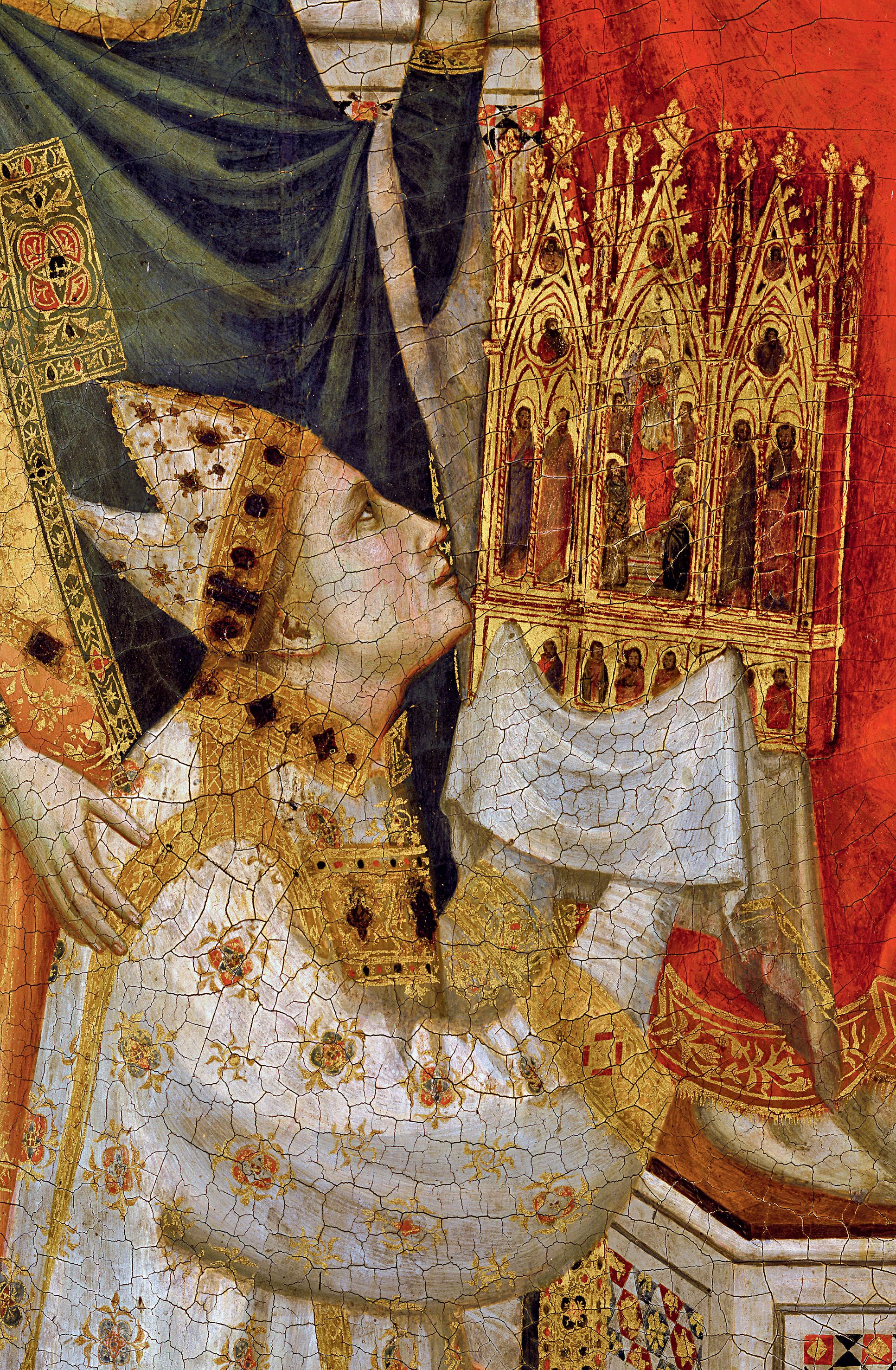 Giotto._The_Stefaneschi_Triptych_(detail)_Pinacoteca,_Vatican